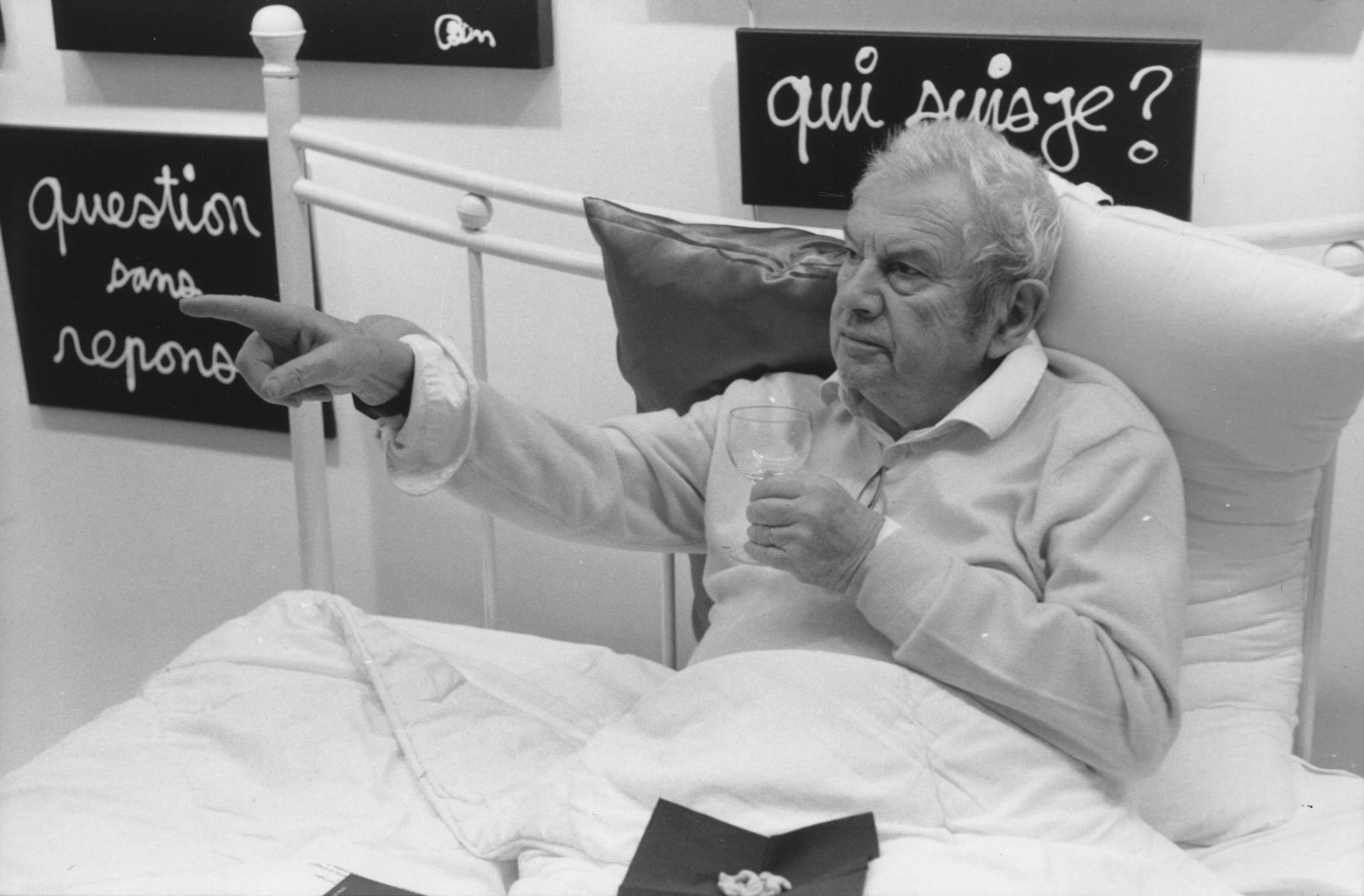 Opening at the Gallery Lara Vincy on January 17, 2019 Аҧсшәа: Vernissage de l'exposition Ben à la Galerie Lara Vincy, 17 janvier 2019